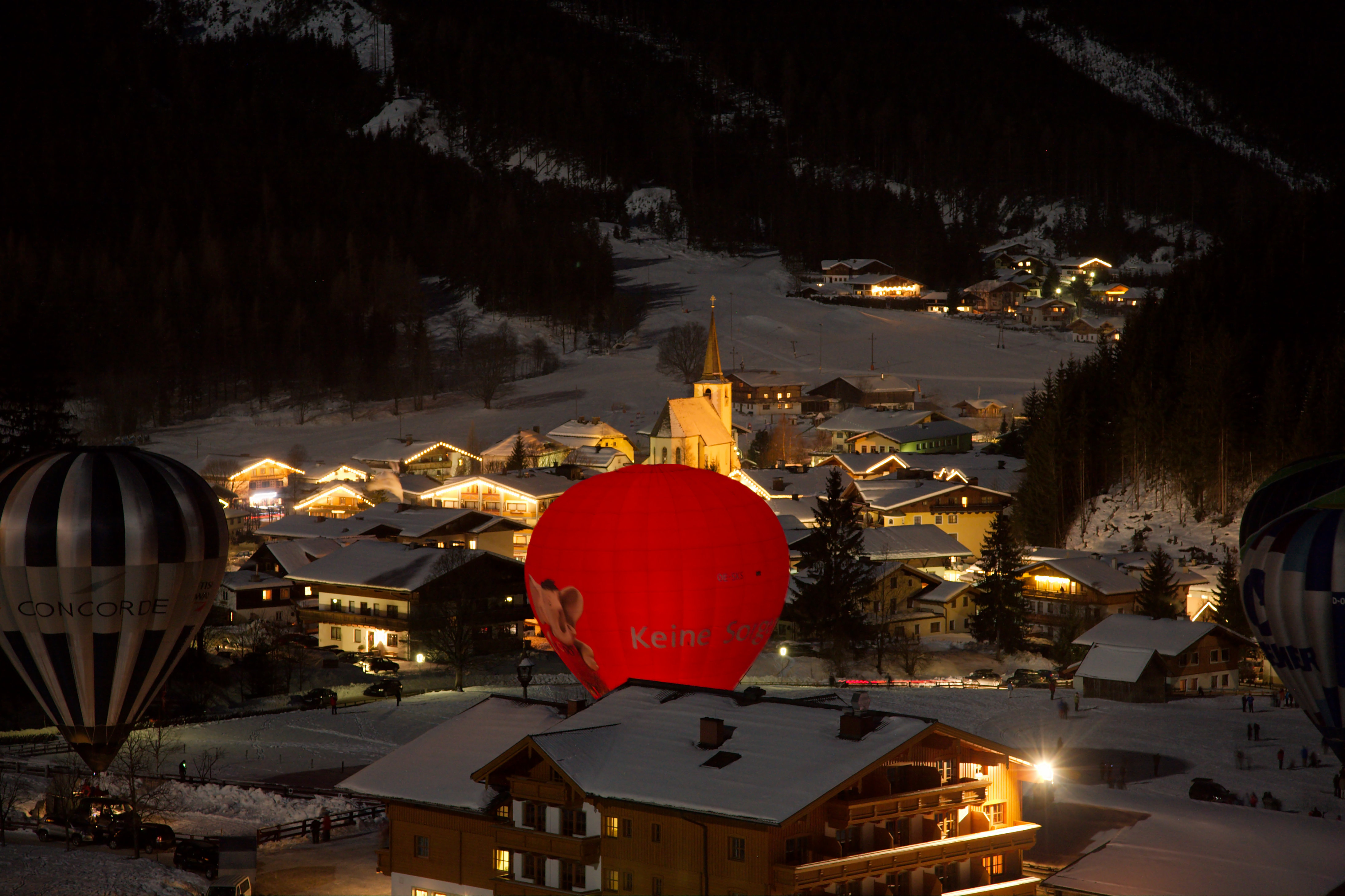 Filzmoos at night of the ballons